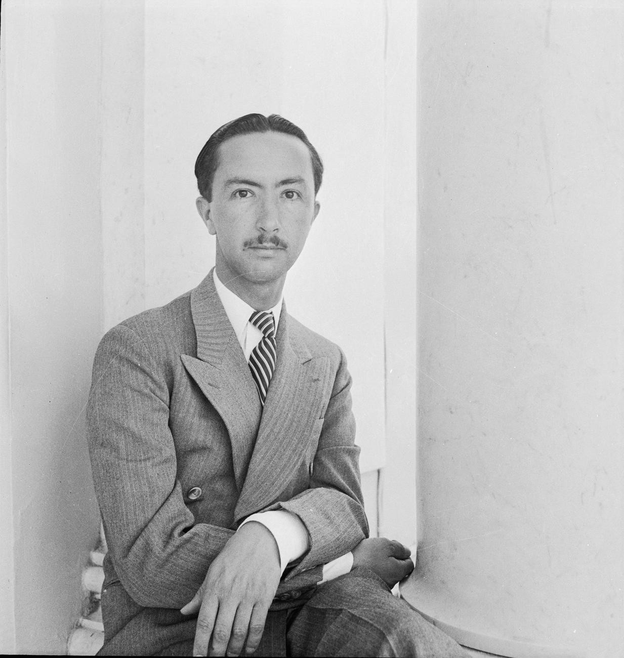 Cecil Beaton Photographs- Political and Military Personalities Political Personalities: Head and shoulders portrait of Regent Emir Abdul Illah of Iraq in Baghdad.